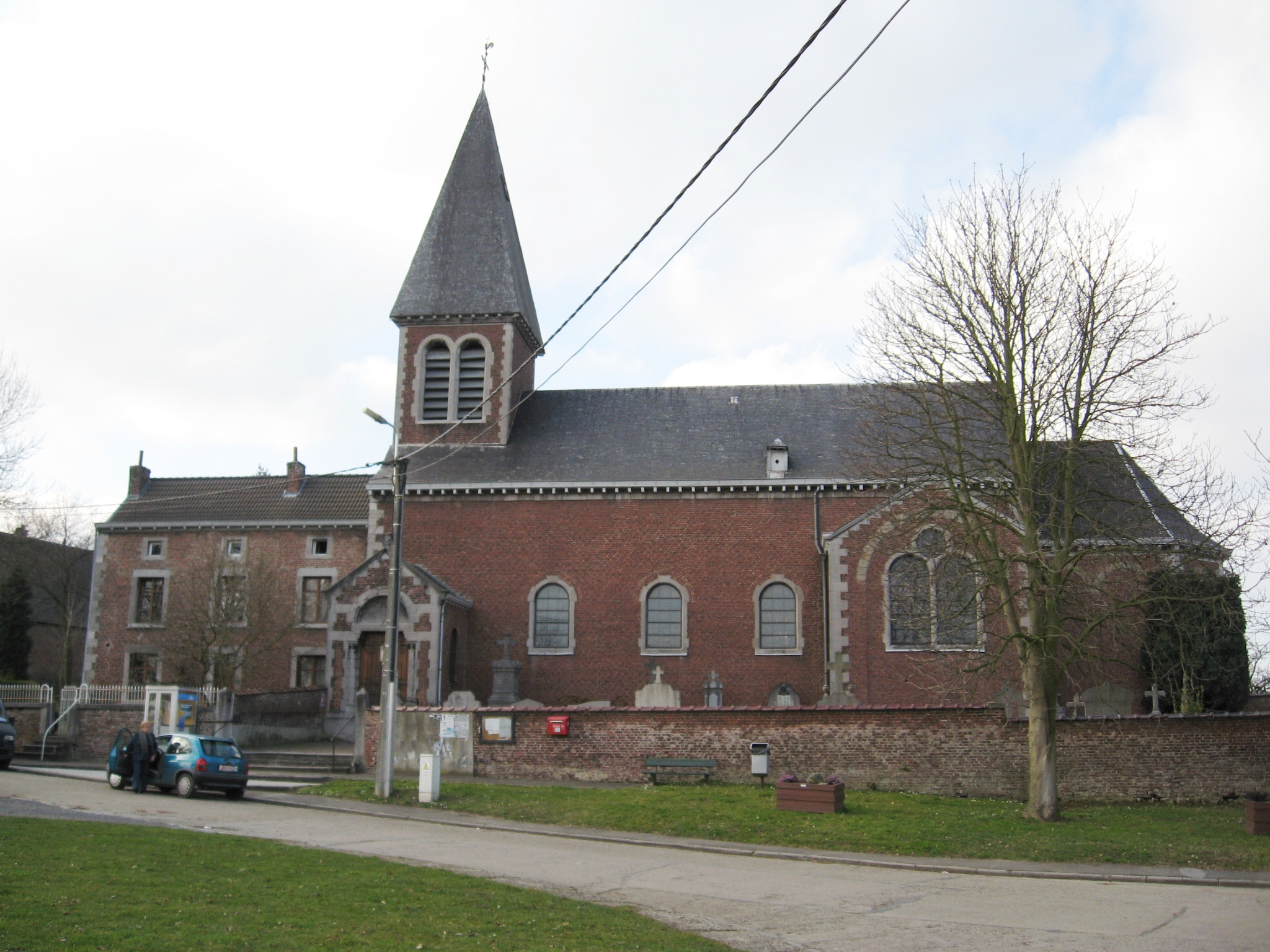 Church of the Assumption of Our Lady in Paifve, Juprelle, Liège, Belgium